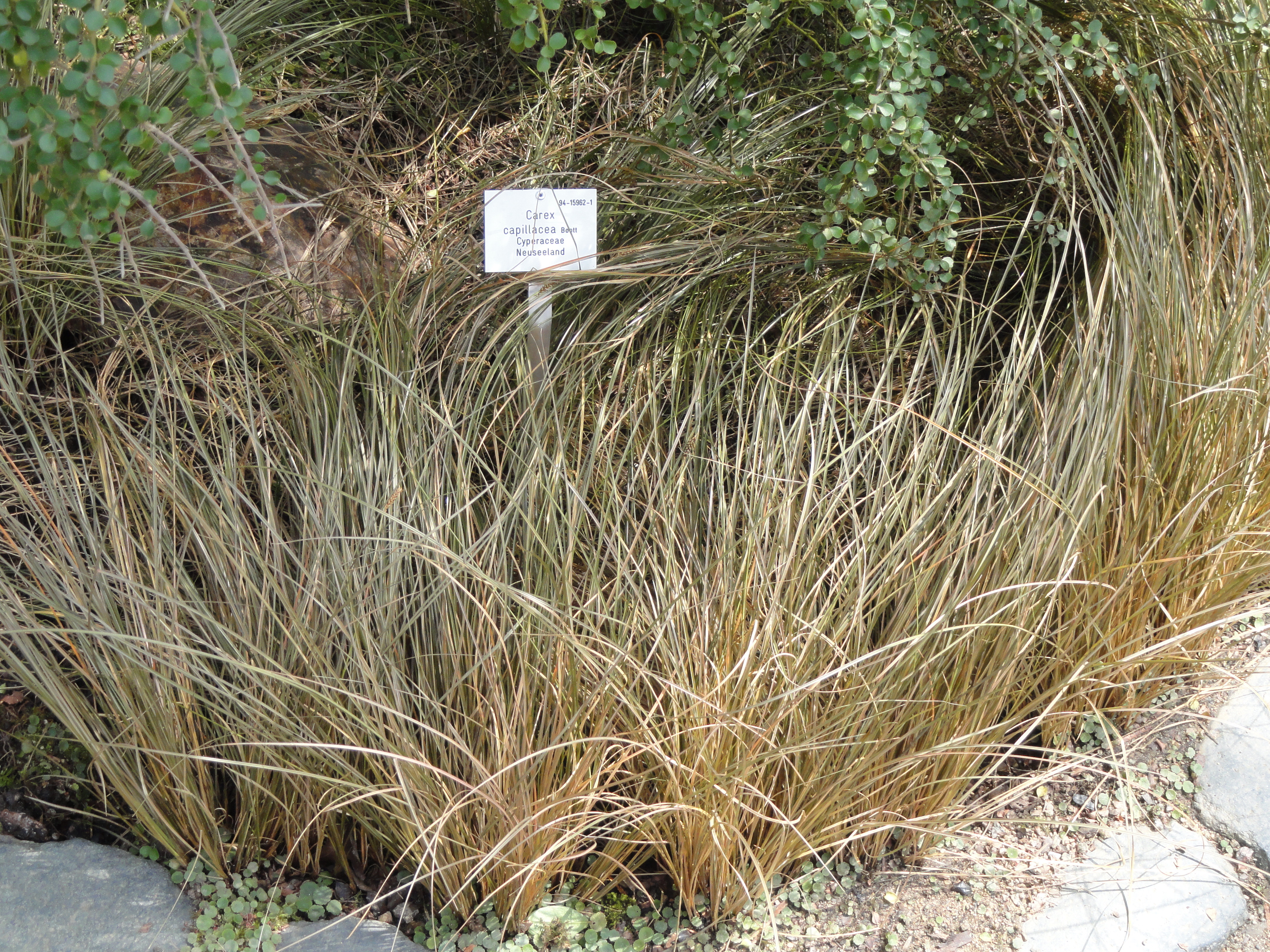 Botanical specimen in the Palmengarten, Frankfurt am Main, Germany.